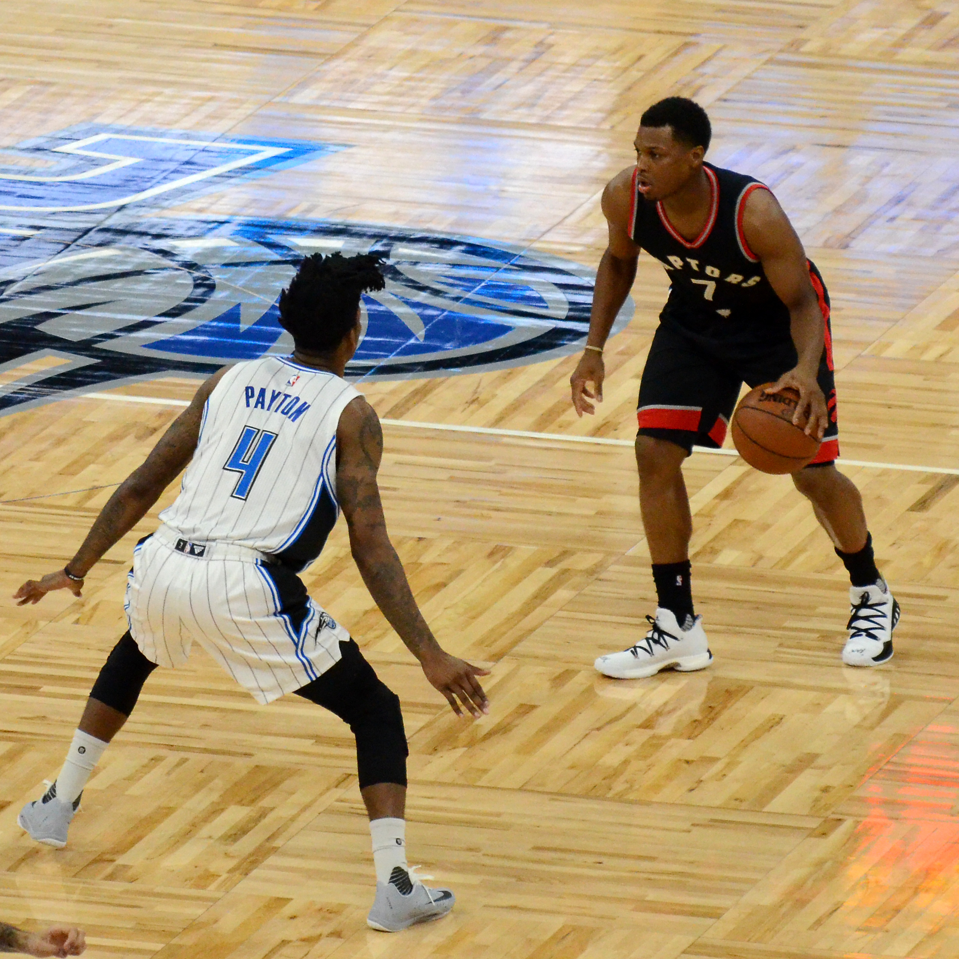 Elfrid Payton And Kyle Lowry